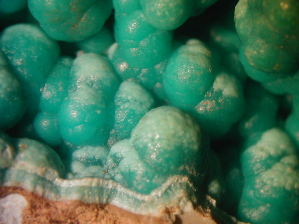 Botryoidal Zincowoodwardite (Picture size: 10 mm) Locality: Lavrion (Laurion), Attica, Greece